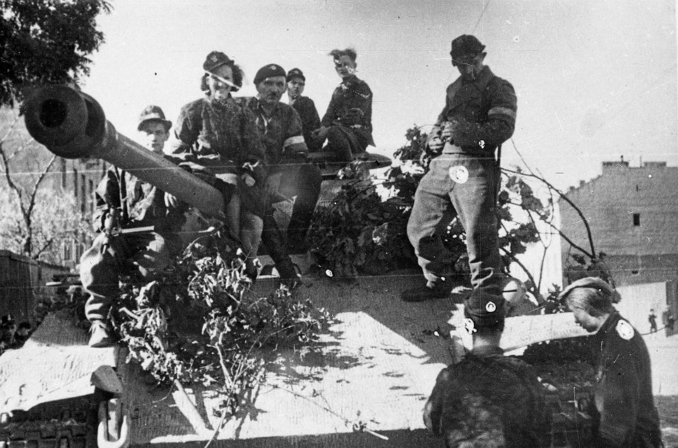 WarsawUprising: Soldiers of tank platoon "Wacek" of "Zośka" Battalion on a German Panther tank around Okopowa Street. Sitting from the left: Zdzisław Moszczeński "Ryk" [2] (according to source [1] „Ryk” is standing first from left facing the tank), unknown, Jan Uniewski „Lumeński" [2] („Łuniewski” according to source [1]), Mieczysław Kijewski "Jordan", Jan Myszkowski Bagiński "Bajan" and Jan Zenka "Walek".